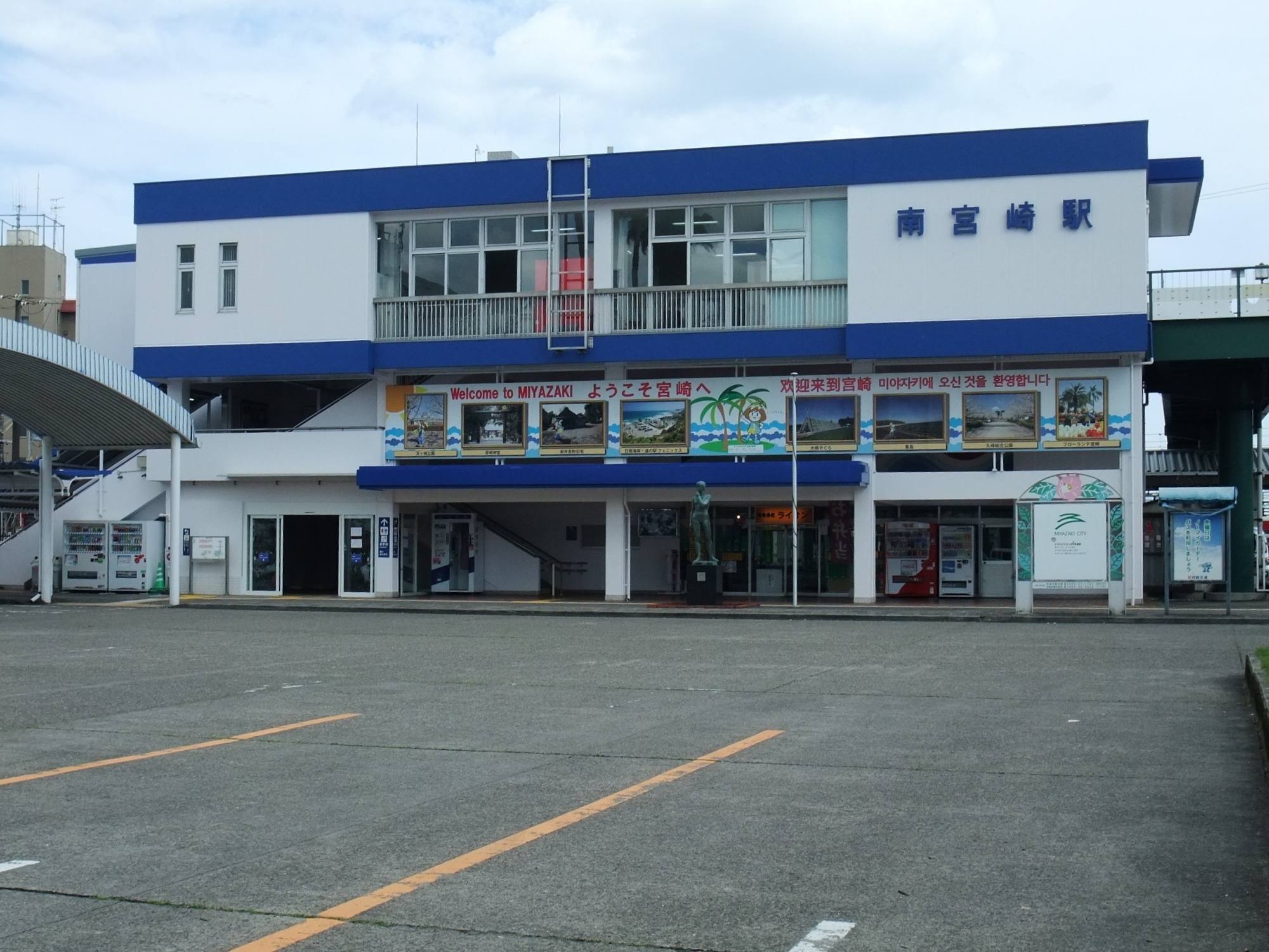 Minami-Miyazaki Station